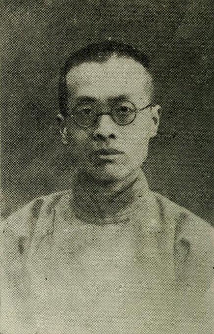 Zhang Dongsun (Chang Tung-sun) (1887 - 1973)